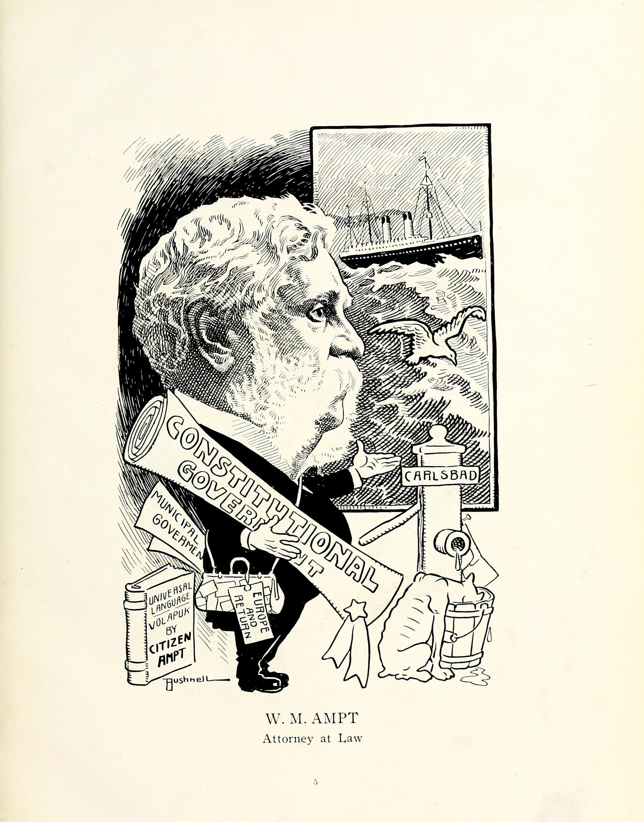 William "Citizen" Ampt, lawyer in Cincinnati.